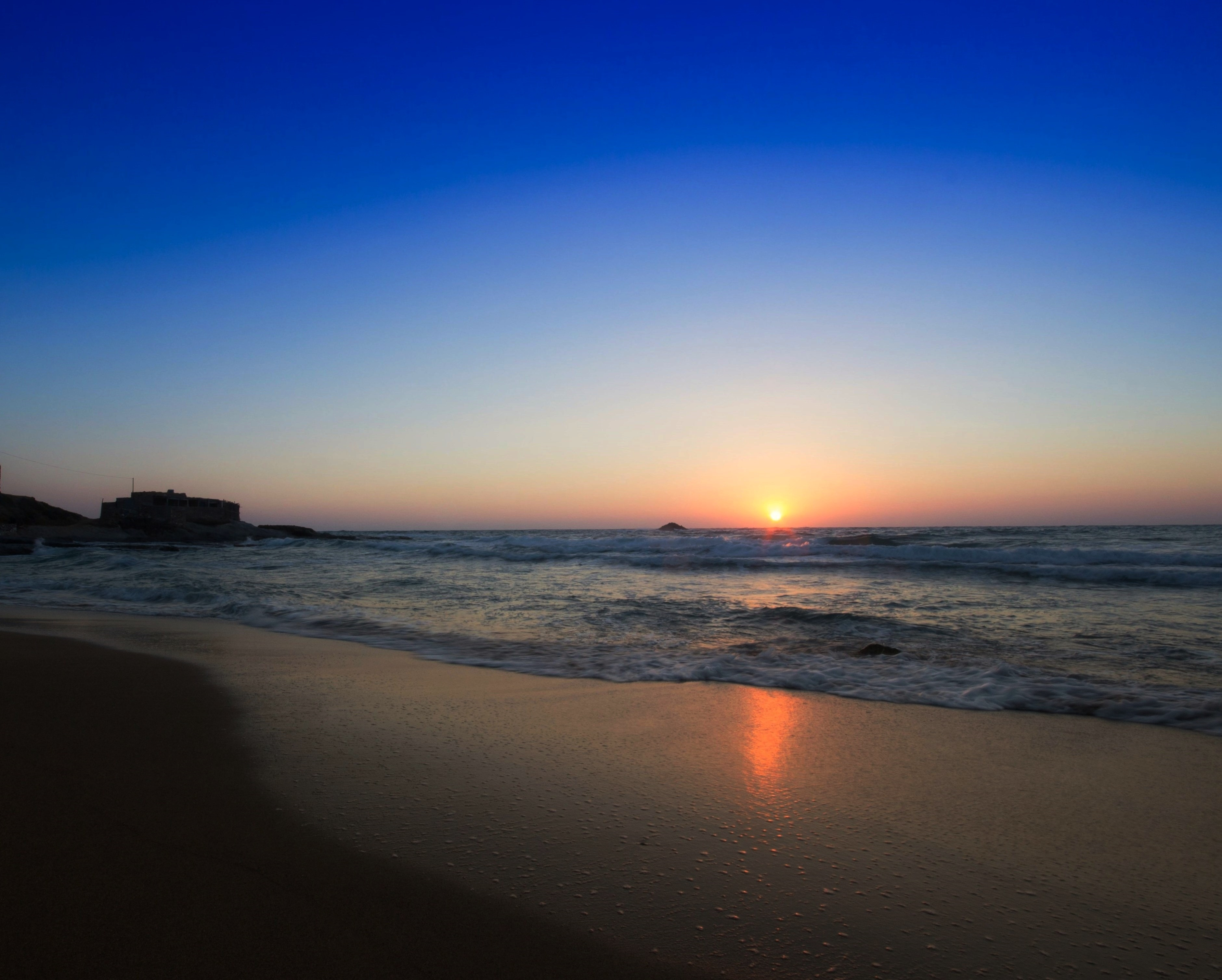 Sunrise in mediterranean sea of morocco